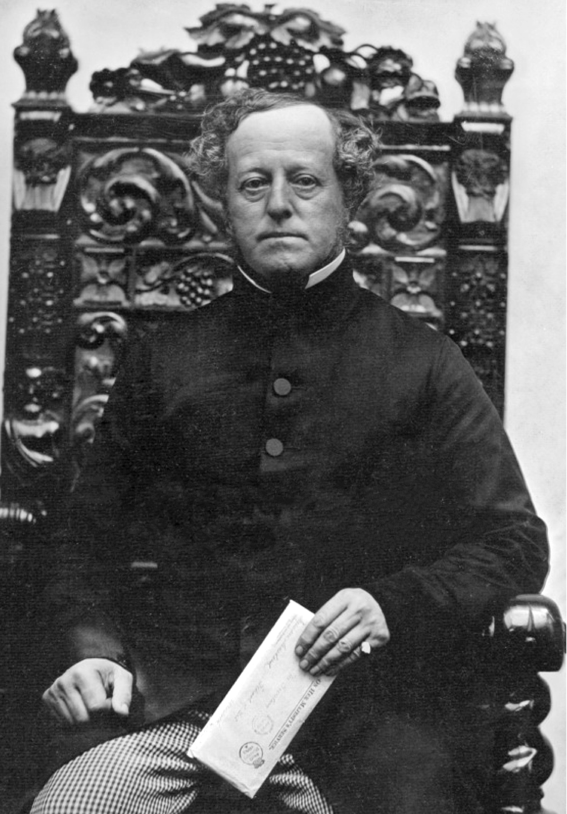 William Penny Brookes (13 August 1809 – 11 December 1895)